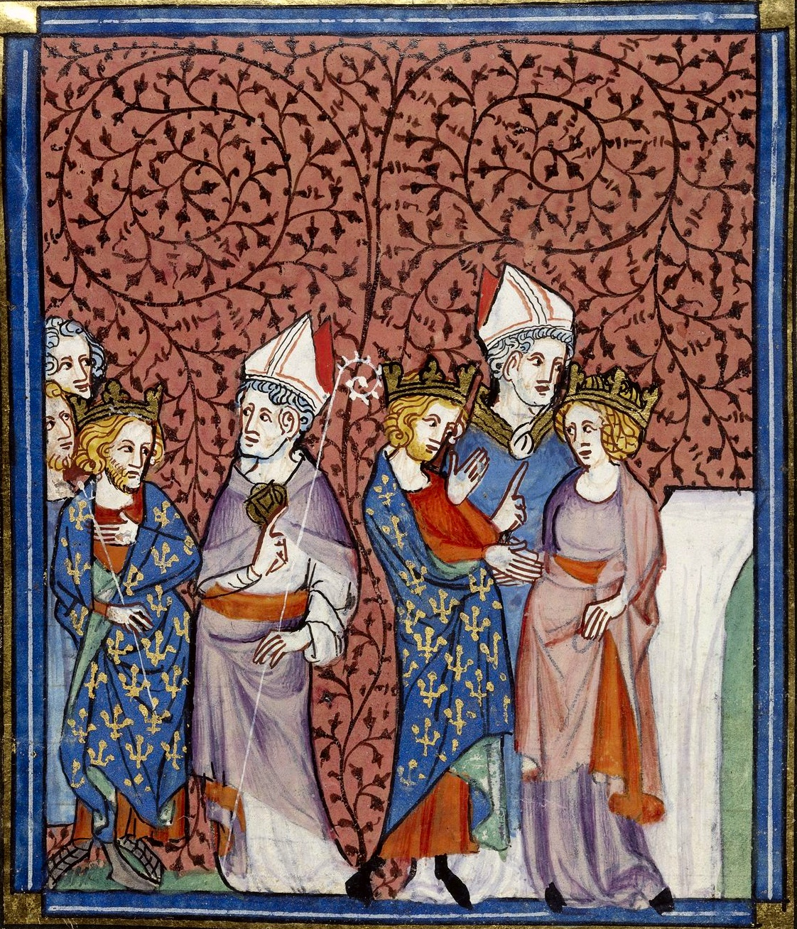 King Henry of France sending a bishop, and his marriage to Anne of Kiev. (British Library, Royal 16 G VI f. 269v)